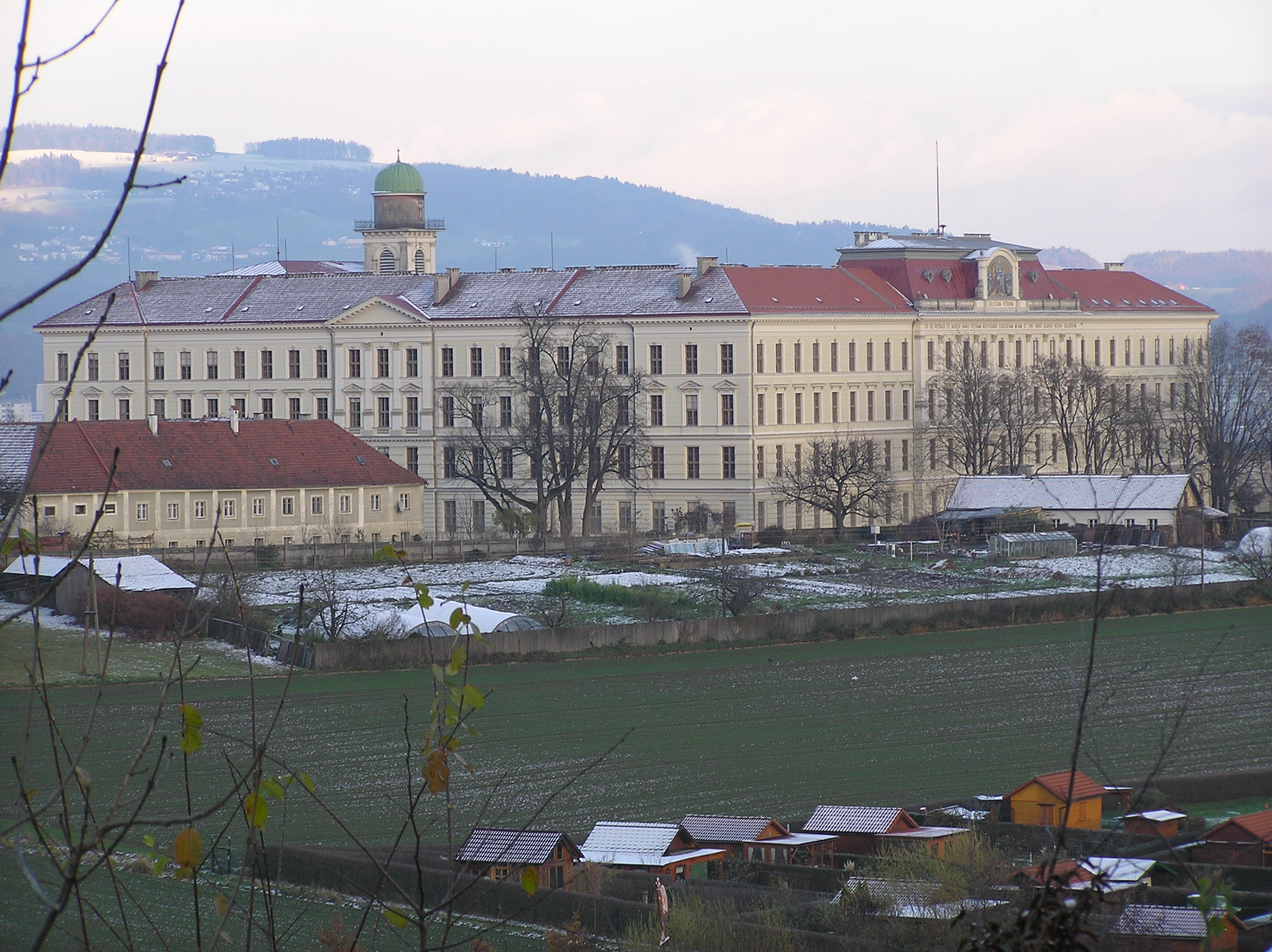 Petrinum Linz, view from Mitterbergerweg. Picture taken by myself, 19 Nov 2005.